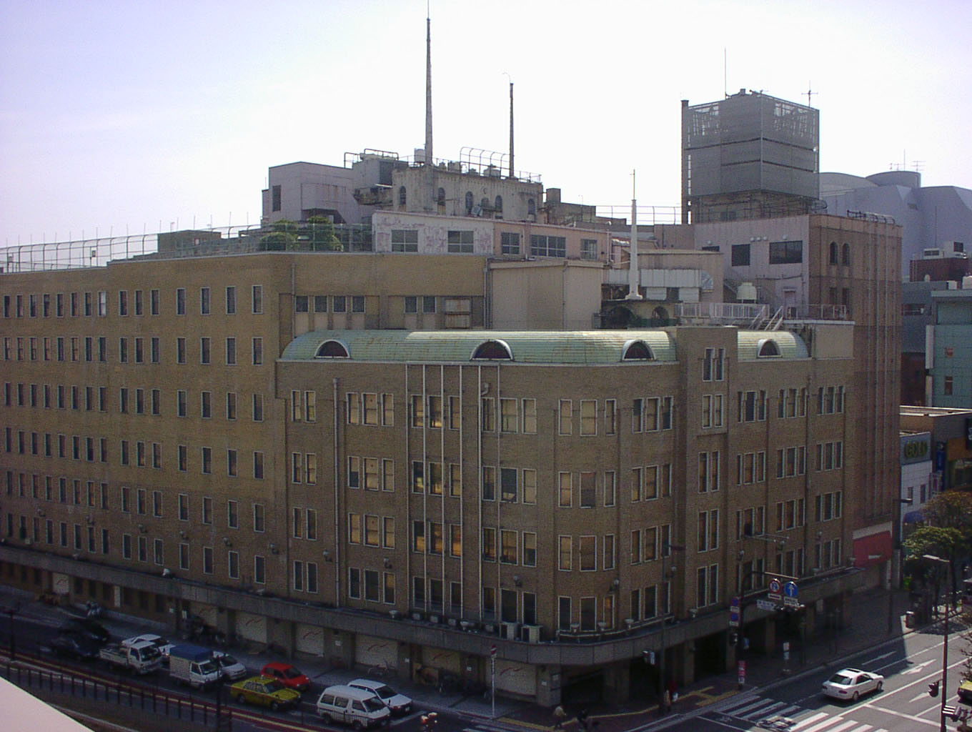 Fukuoka Tamaya department store, taken at maybe 2000 ca..